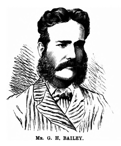 Drawing of George Bailey in 1878